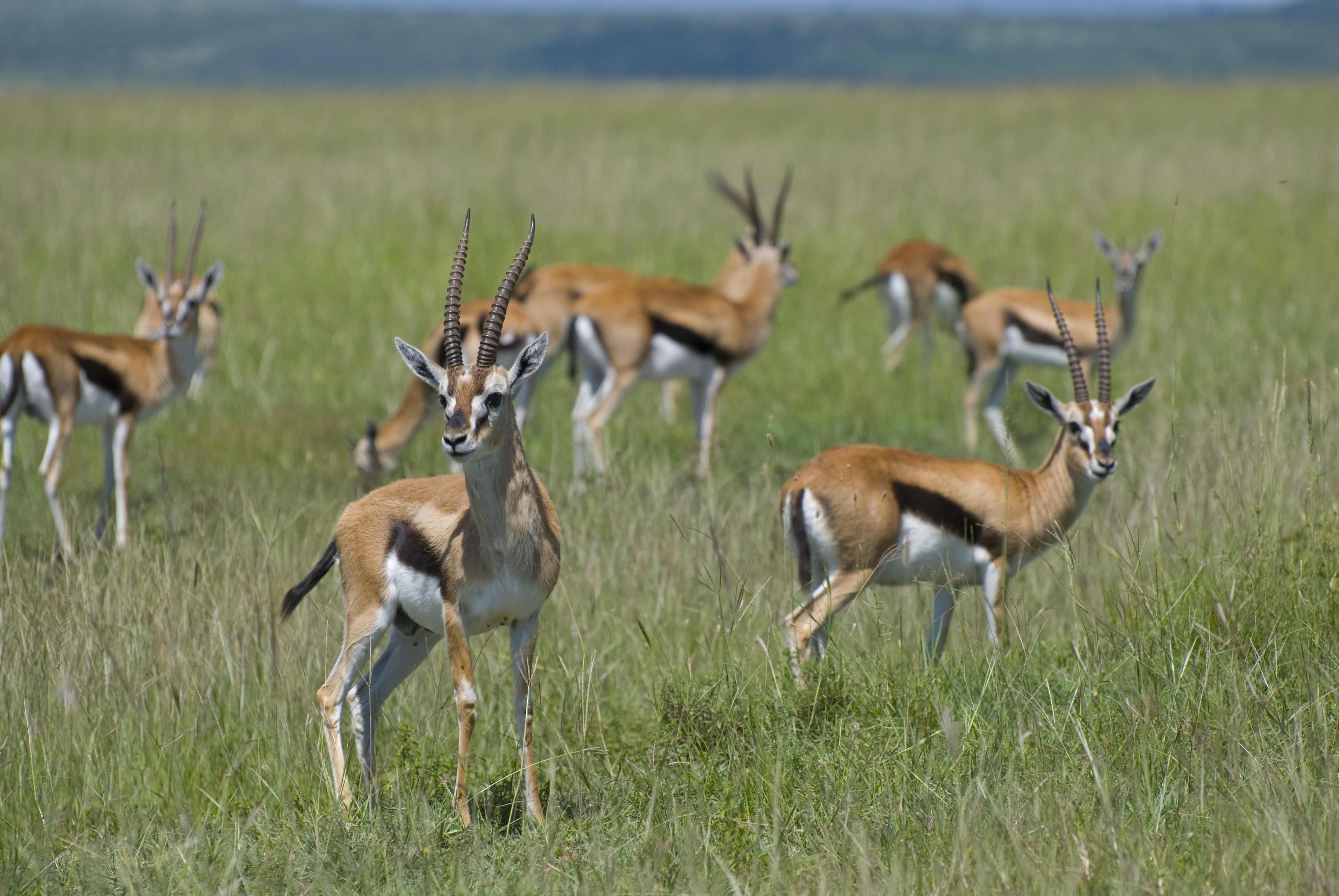 Thomson's Gazelle (Gazella thomsoni) in Masai Mara, Kenya